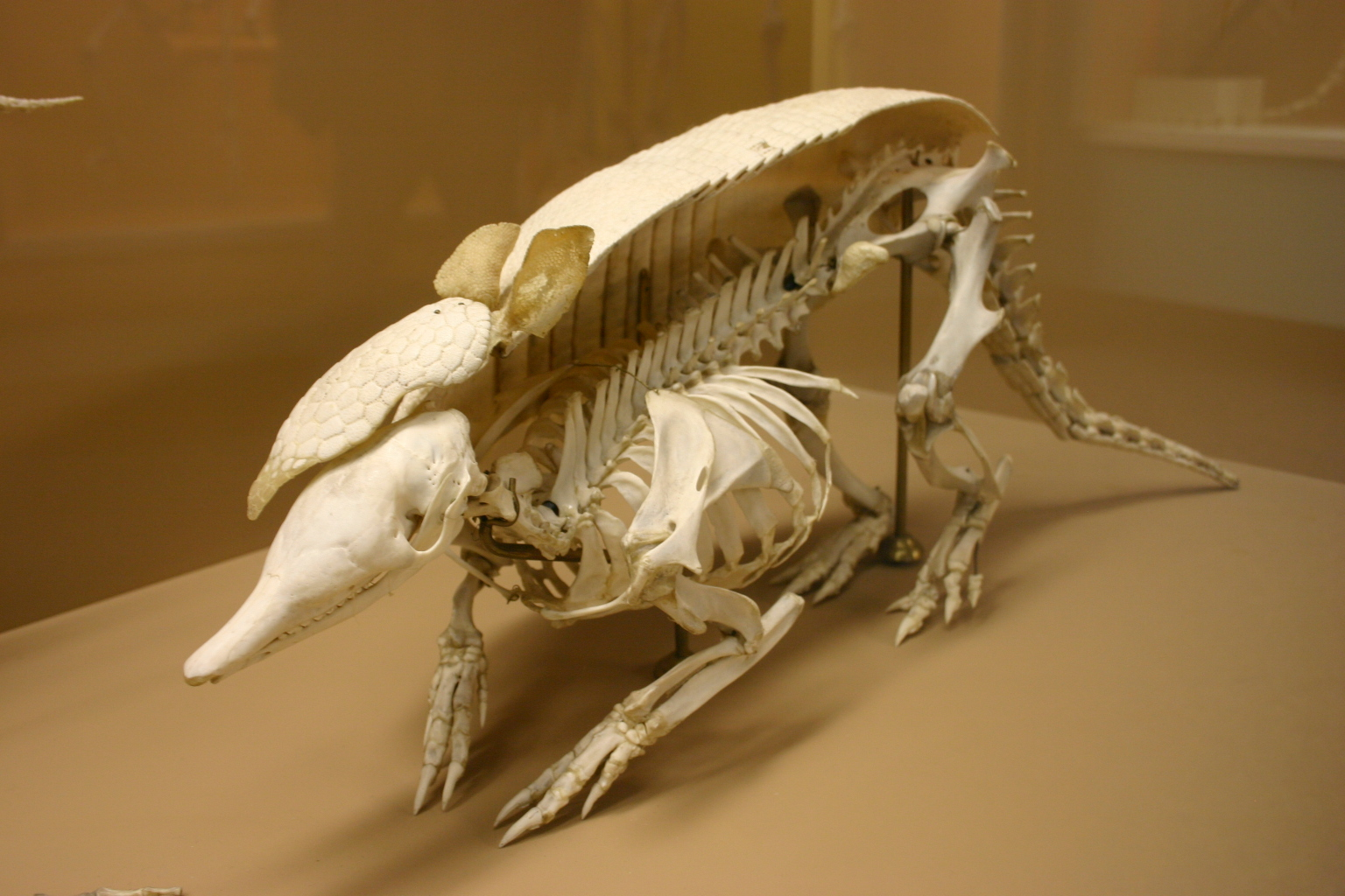 Dasypus novemcinctus skeleton, Smithsonian National Museum of Natural History Visit my blog at